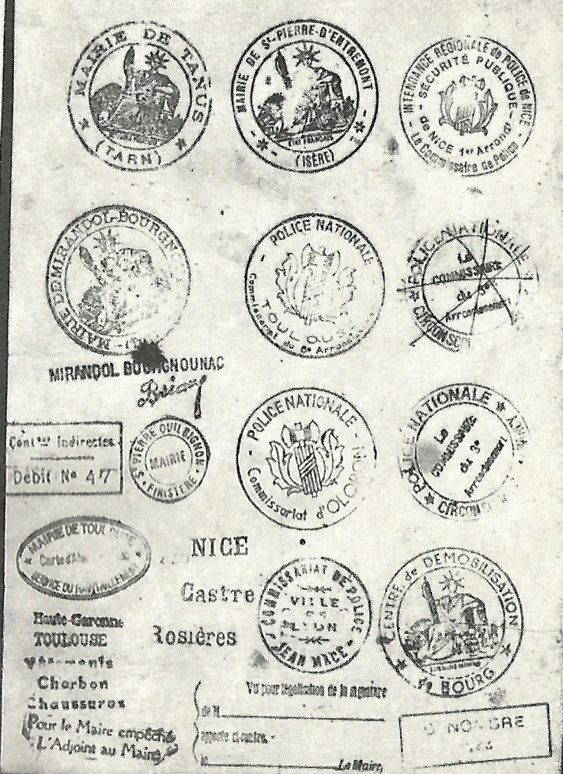 False tablets, stamps, etc created in Jewish Army laboratory